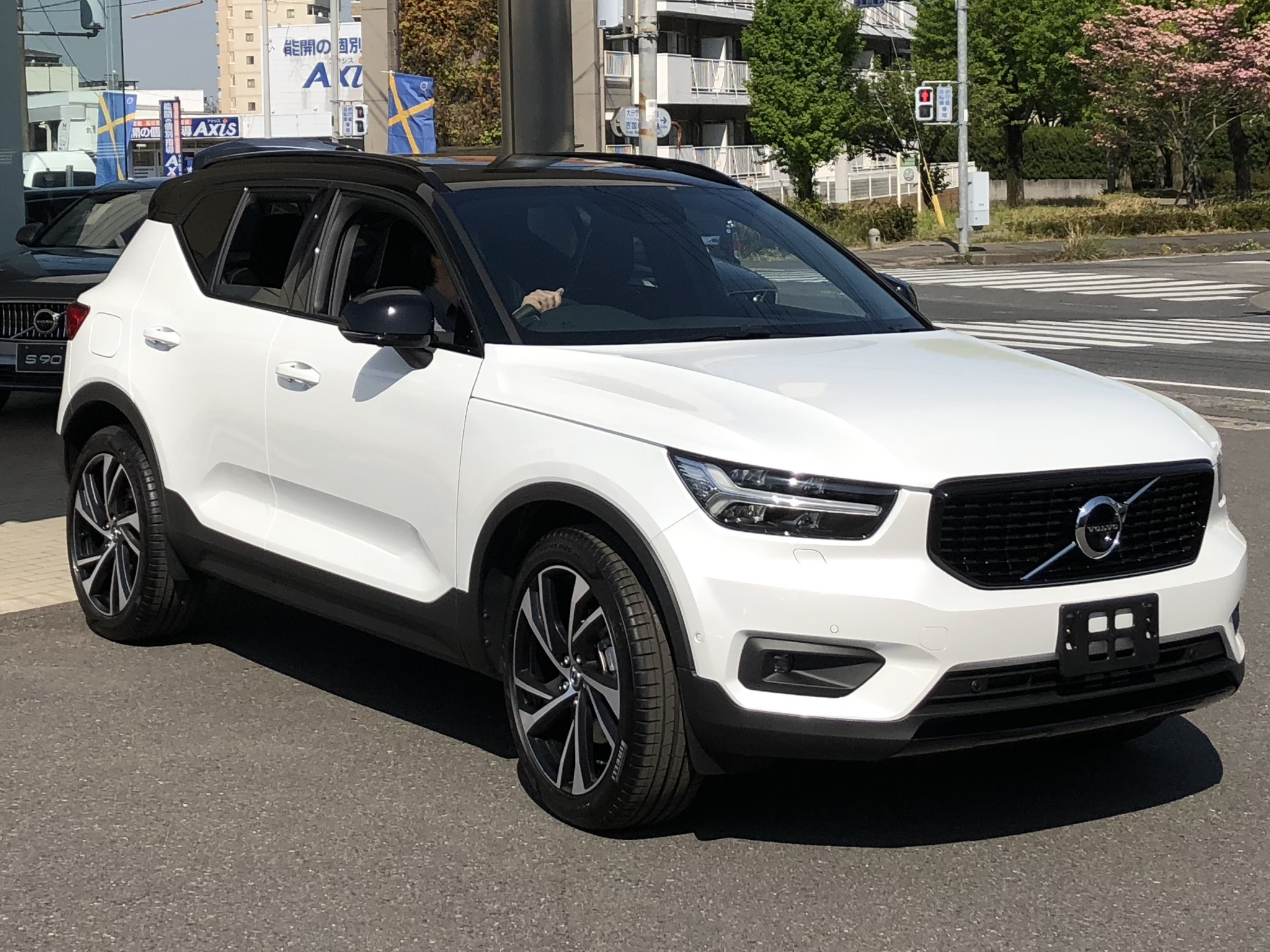 VOLVO XC40 T5 AWD R-DESIGN FRONT(JPN).Photographed in Japan.